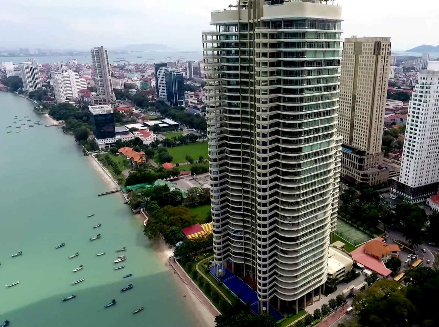 8 Gurney is a 38-storey condominium at Gurney Drive in the city of George Town in Penang, Malaysia